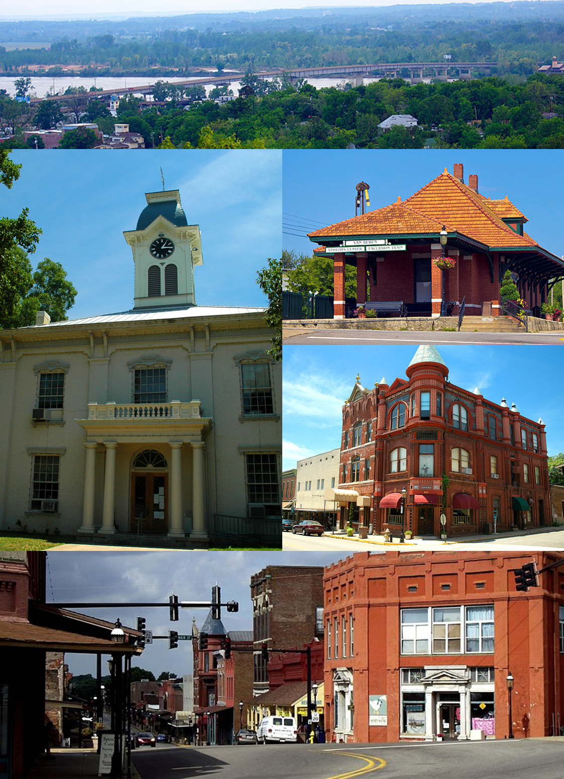 File:VBUREN 13-06-2010 09-38-38 a.m. 4000x2248.jpg File:Crawford County Bank.jpg File:Van Buren Depot.jpg File:Crawford County Arkansas Courthouse.jpg File:Van Buren - Highway 71 Bridge.jpg